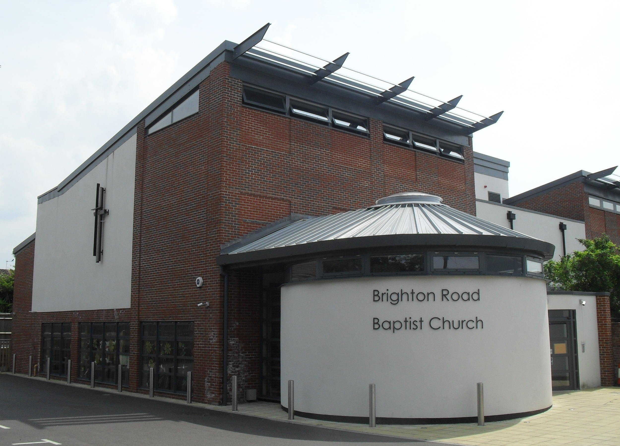 Brighton Road Baptist Church, Brighton Road , Horsham, West Sussex, England. Built in the early 21st century to replace a 1920s building on the same site.